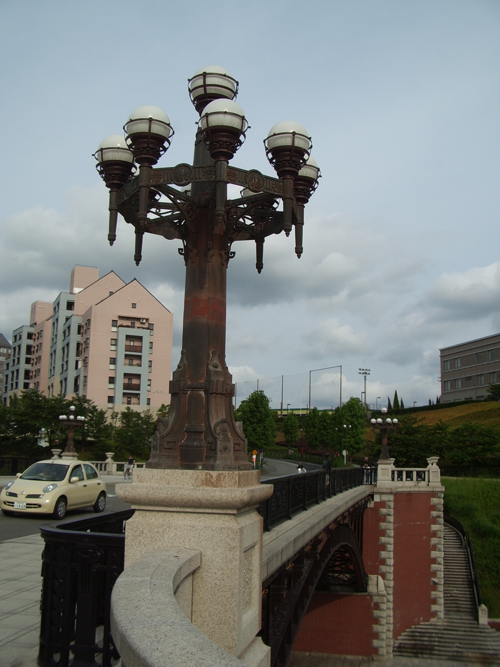 Nagaike Mitsuke bashi, former Yotsuya Mitsuke Bashi, Hachioji, tokyo